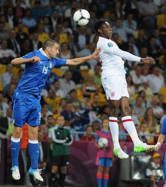 Leonardo Bonucci and Danny Welbeck at Euro 2012 match England-Italy